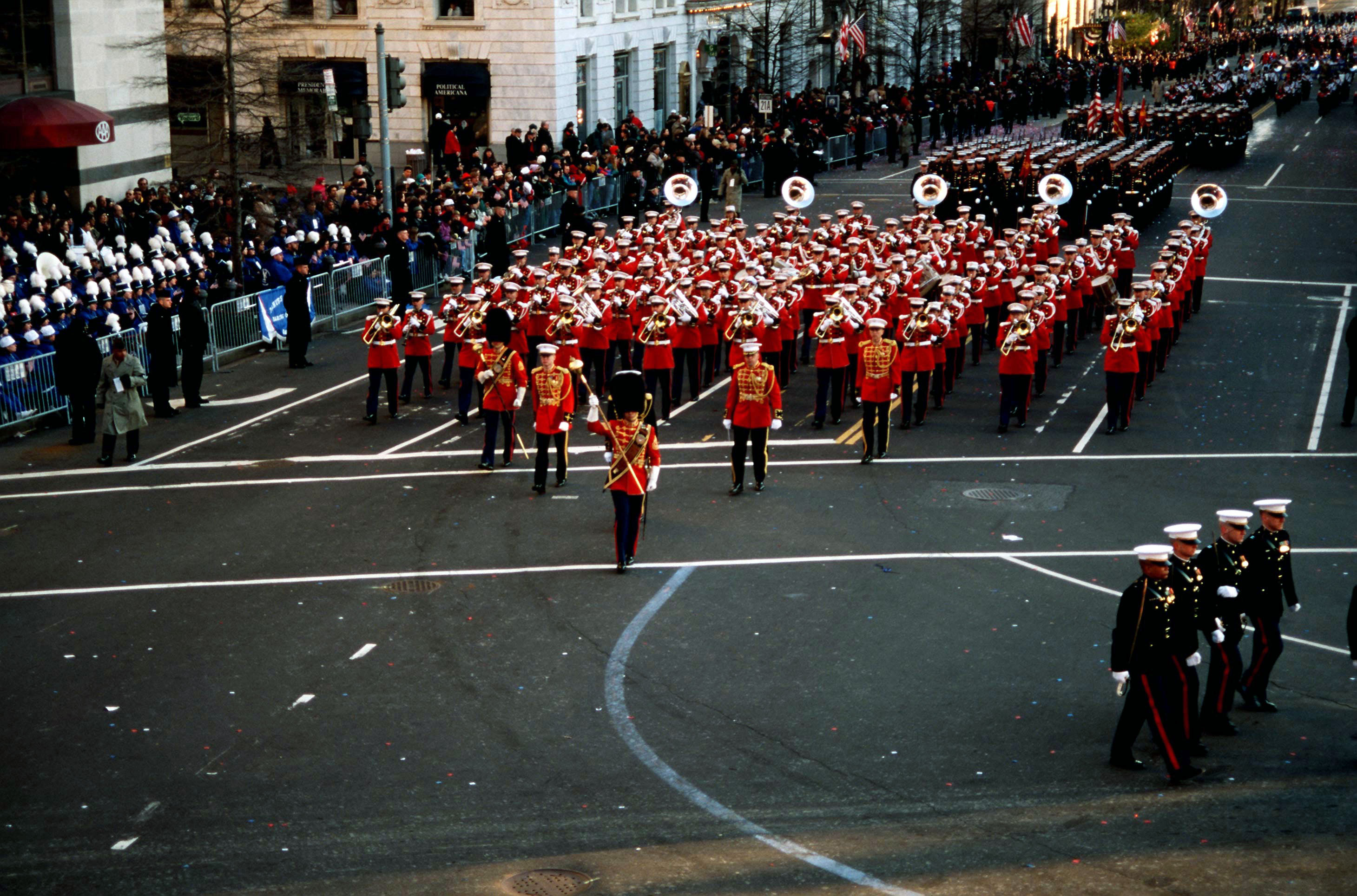 The United States Marine Corps Band (The President's Own) marches down 15th Street during the 1997 presidential inaugural parade. Photographer's Name: te Shot